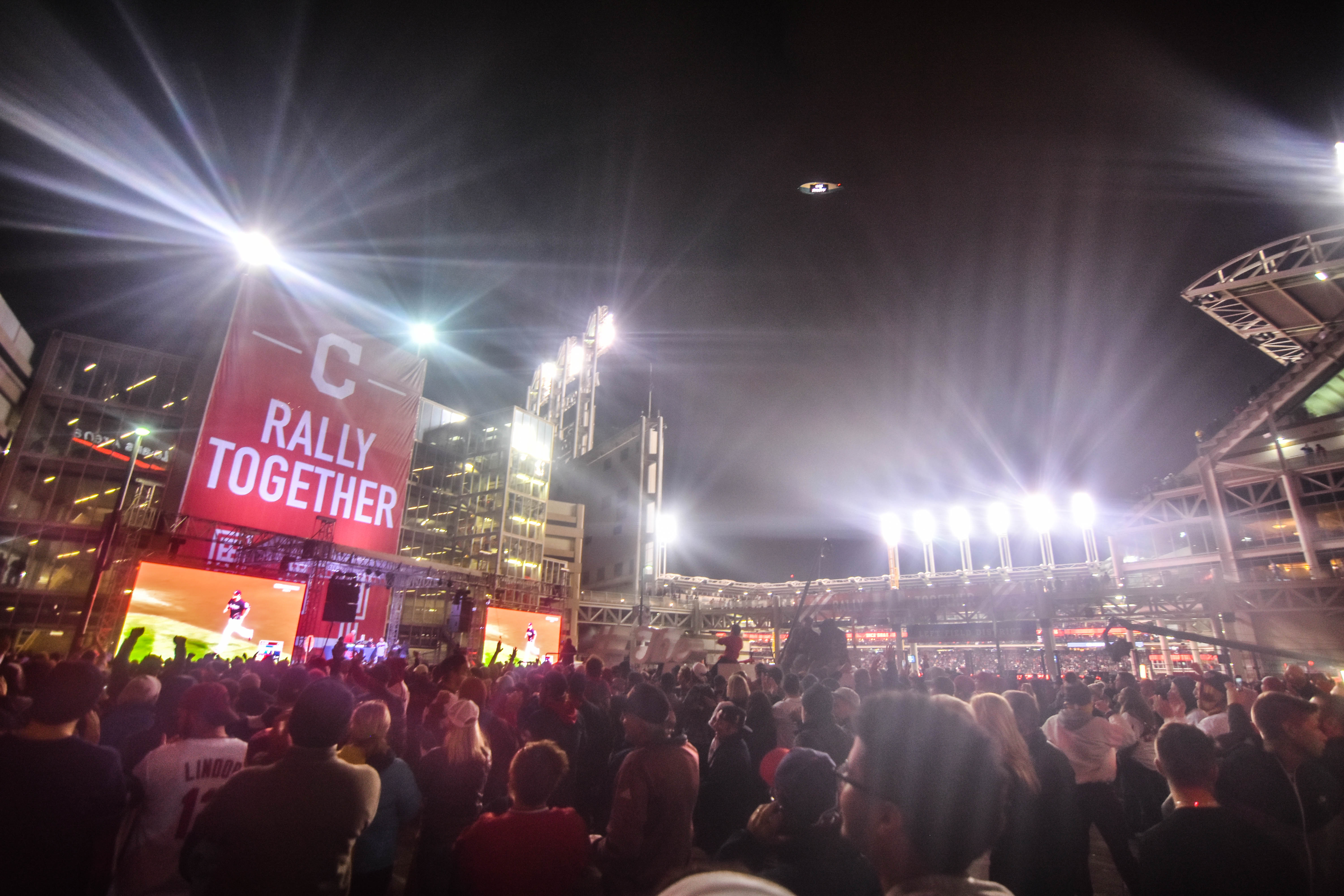 Cleveland Indians vs. Chicago Cubs World Series Game 1